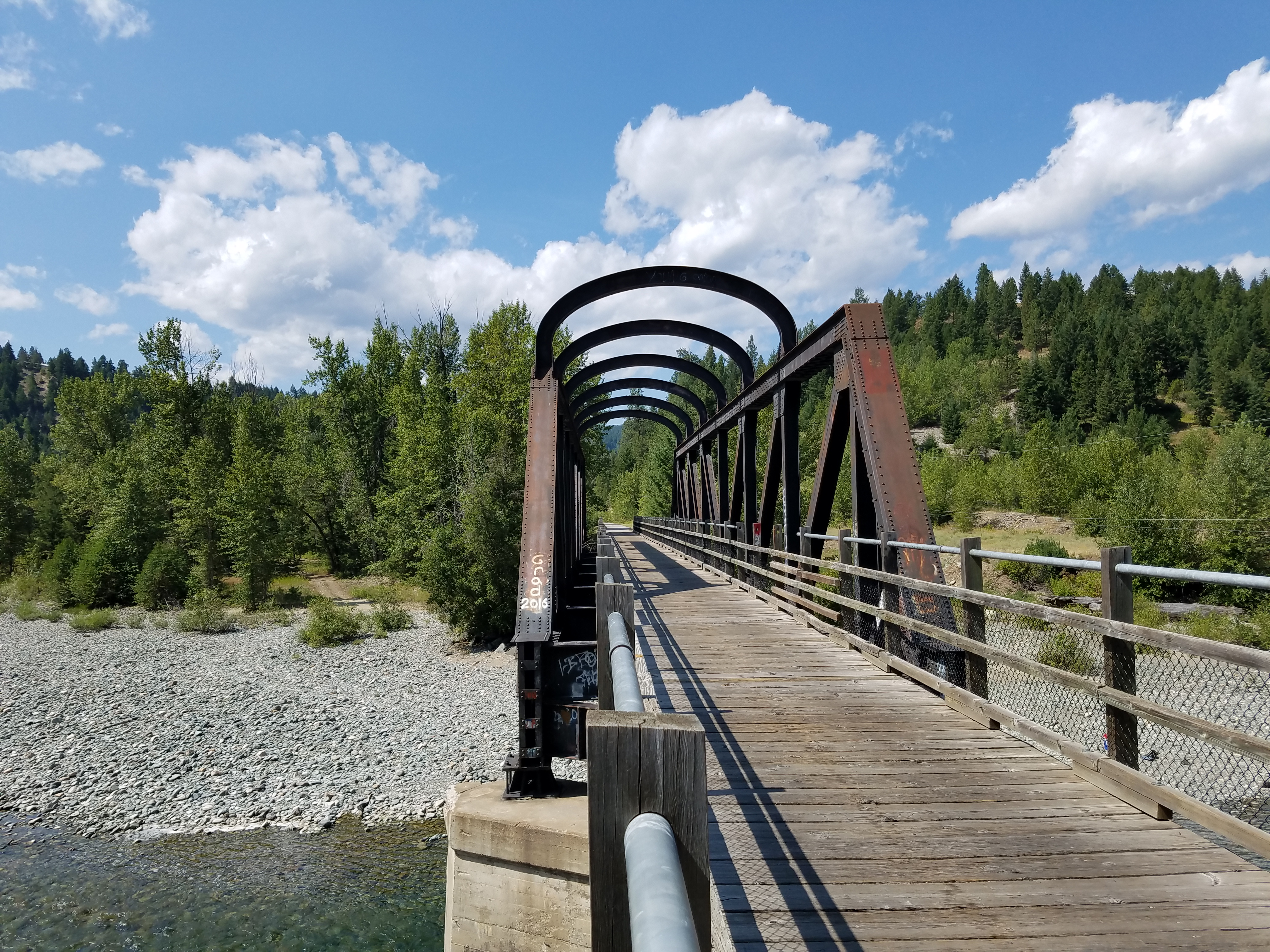 The staghered-truss bridge crossing the Tulameen River at the north portal to the Princeton Railway Tunnel in Princeton, British Columbia. Formerly of the Kettle Valley Railway.